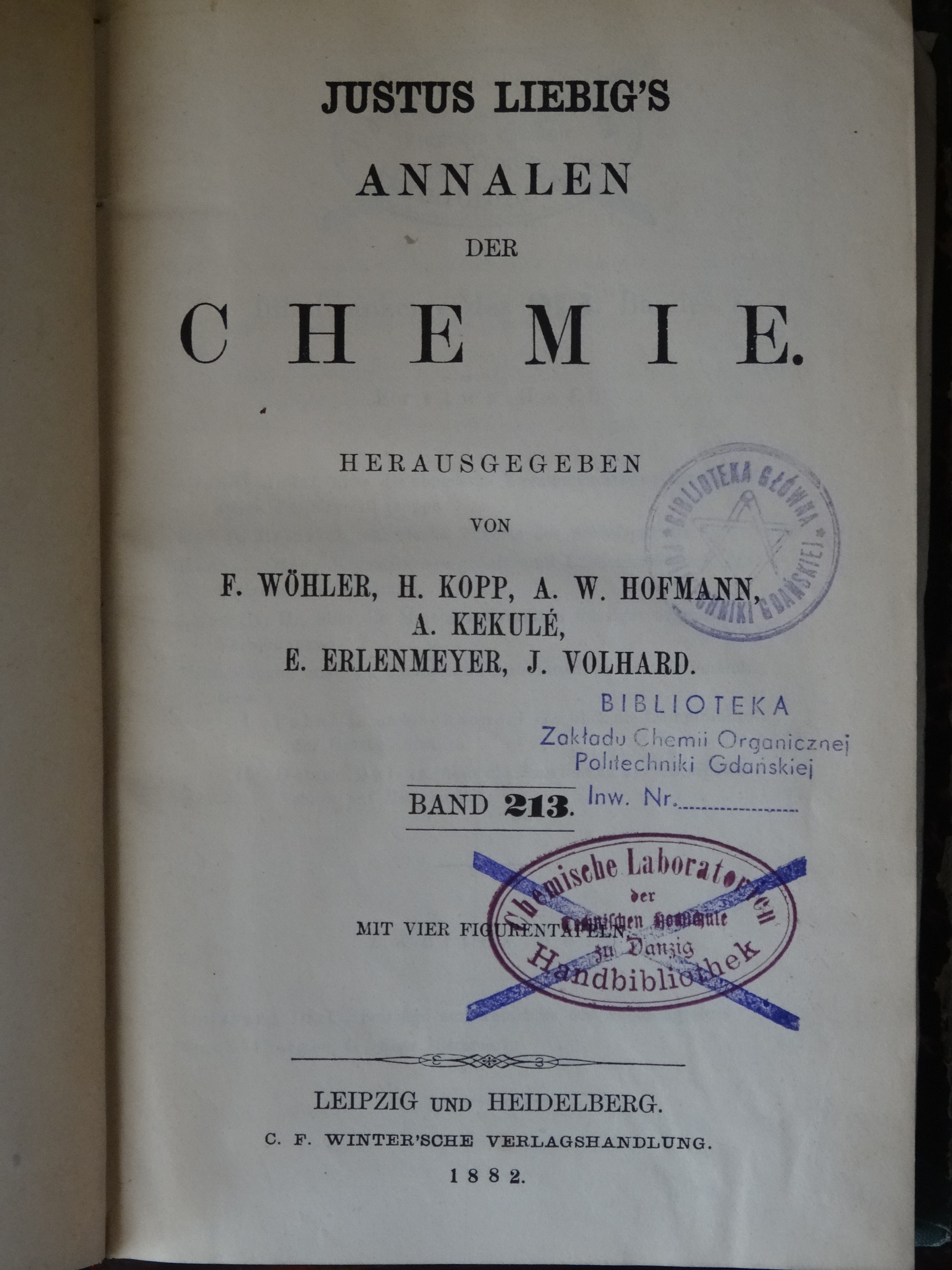 Annalen der Chemie 1882, Faculty of Chemistry, Gdansk University of Technology.